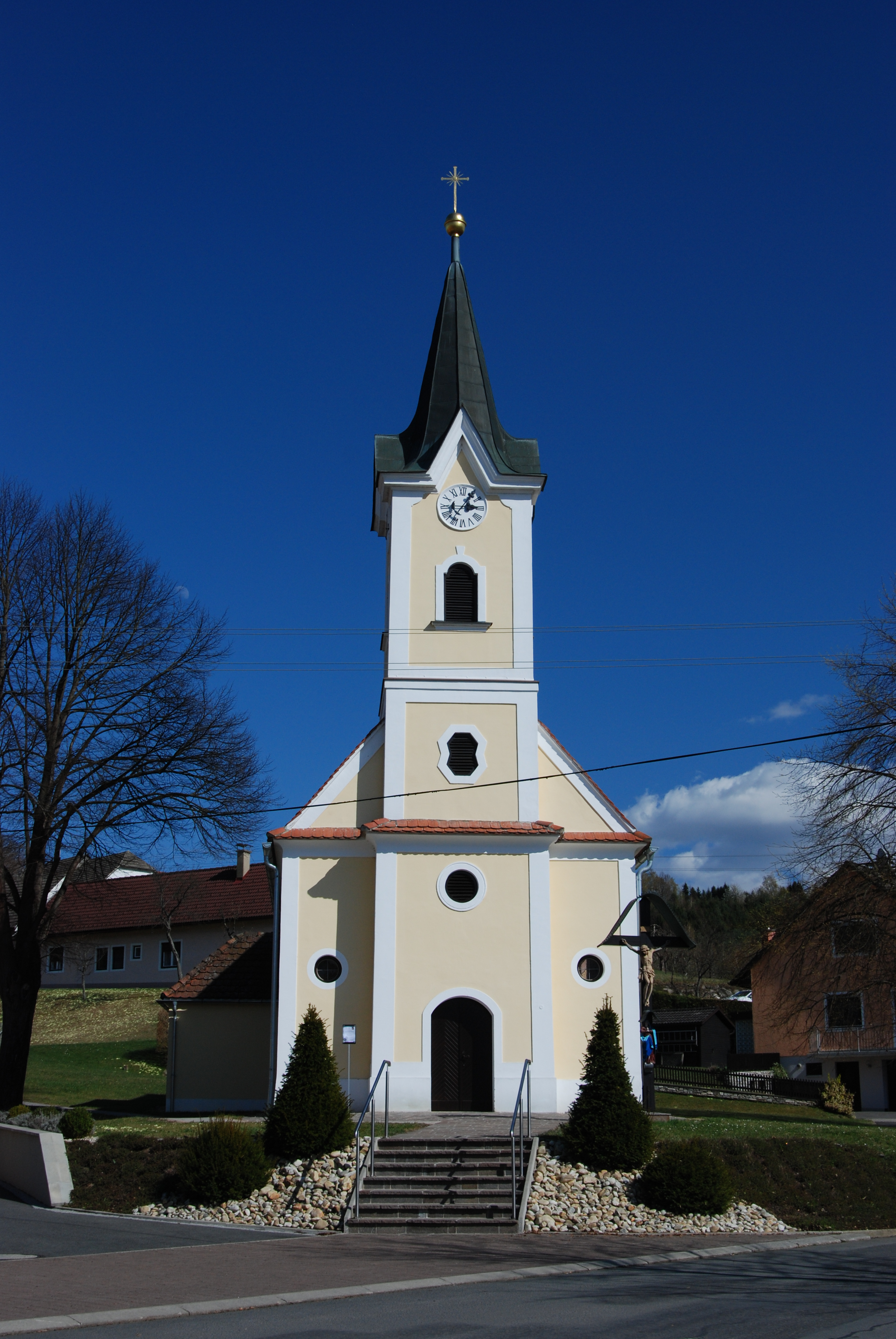 Ortskapelle Windisch-Minihof